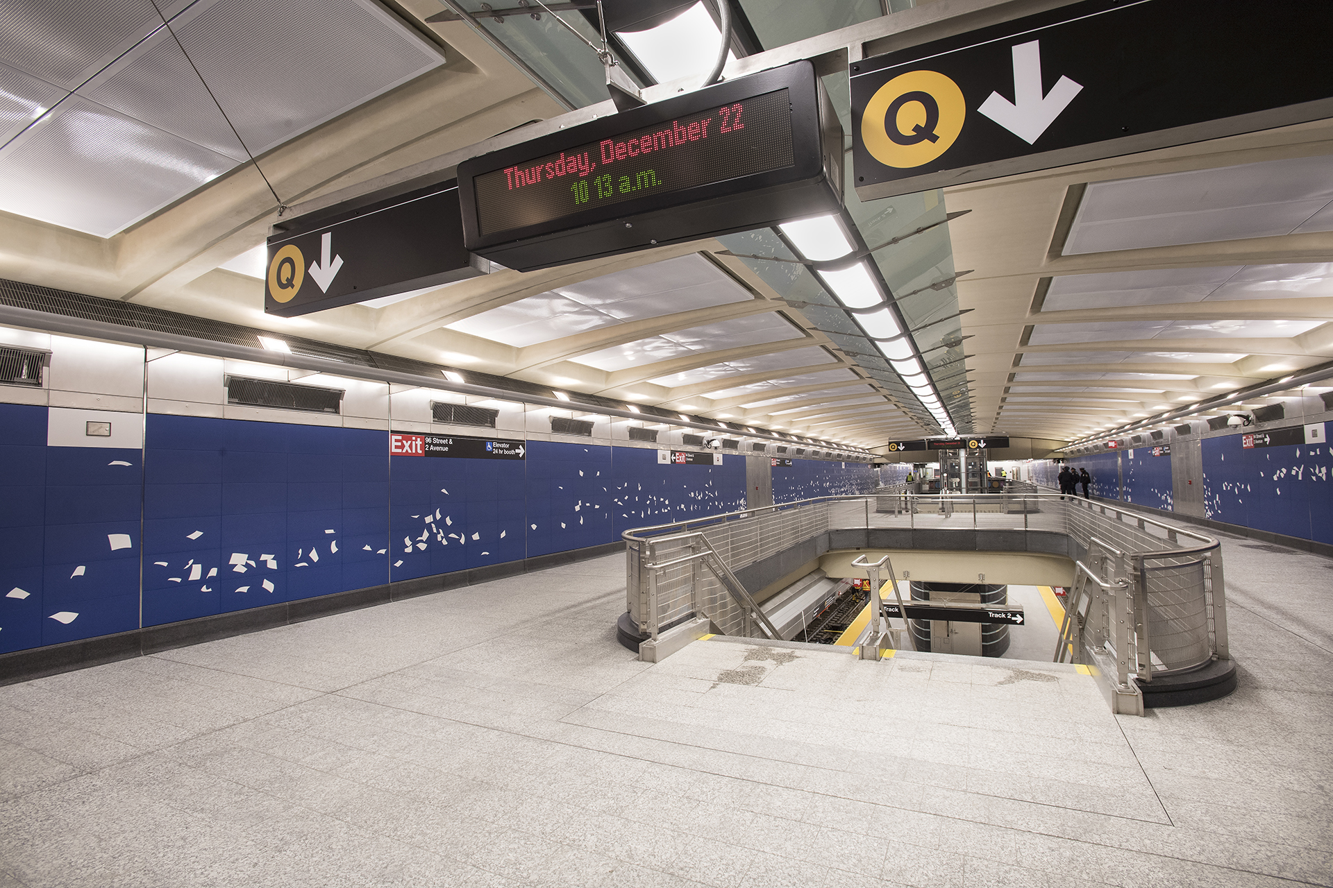 96th Street Station of the Second Avenue Subway Line displayed to the public for the first time on December 22, 2016.